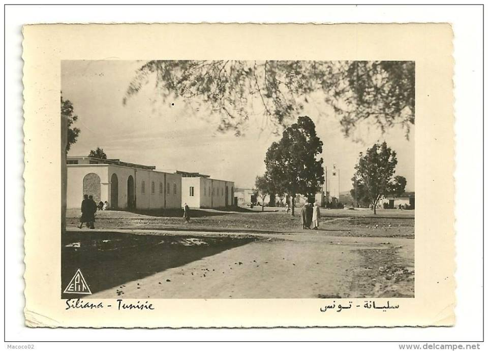 old picture of siliana